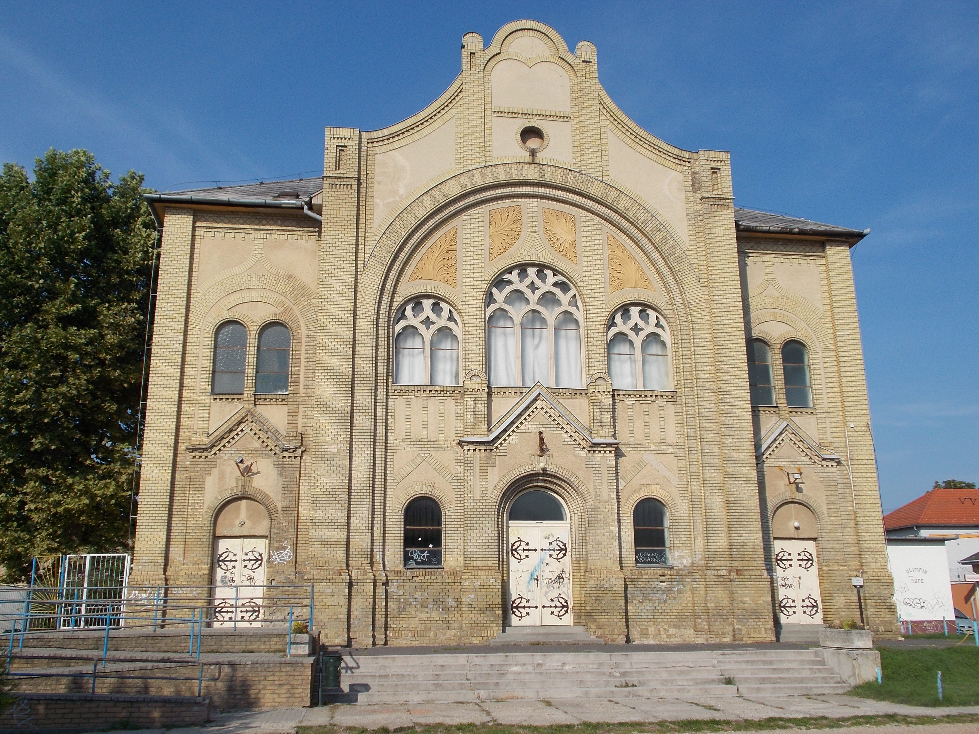 Former synagogue. Listed ID -1499. - Damjanich St., Cegléd, Pest County, Hungary